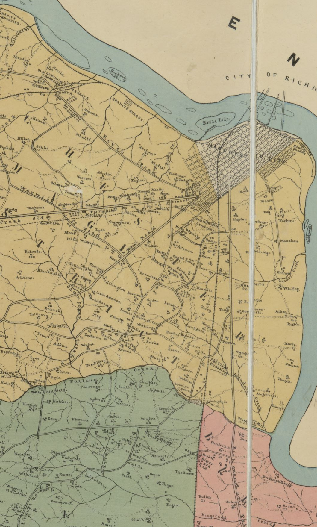 Map of Chesterfield County, Virginia 1888 (Manchester to Drewrys Bluff)